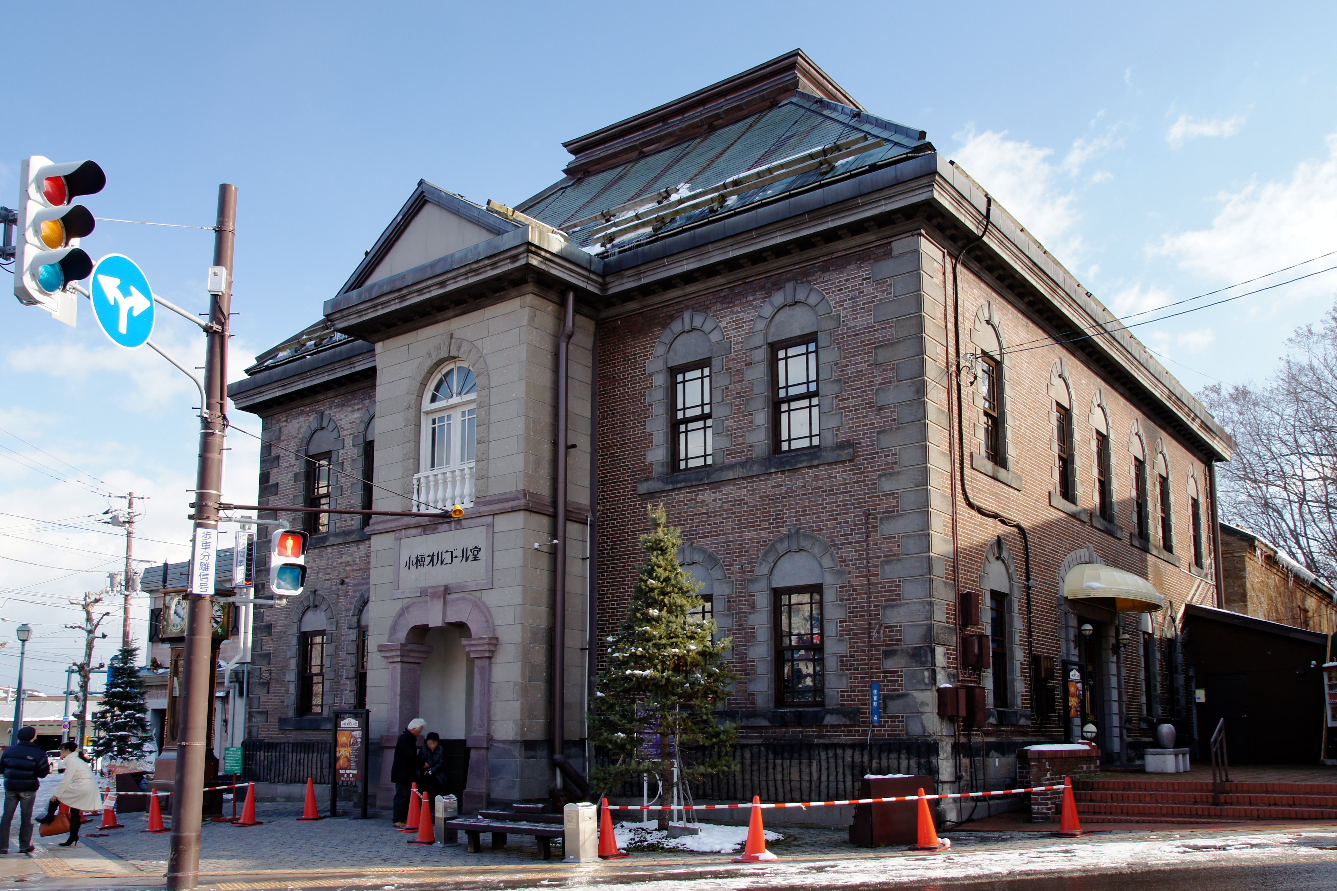 Former Kyosei Company in Otaru, Hokkaido prefecture, Japan